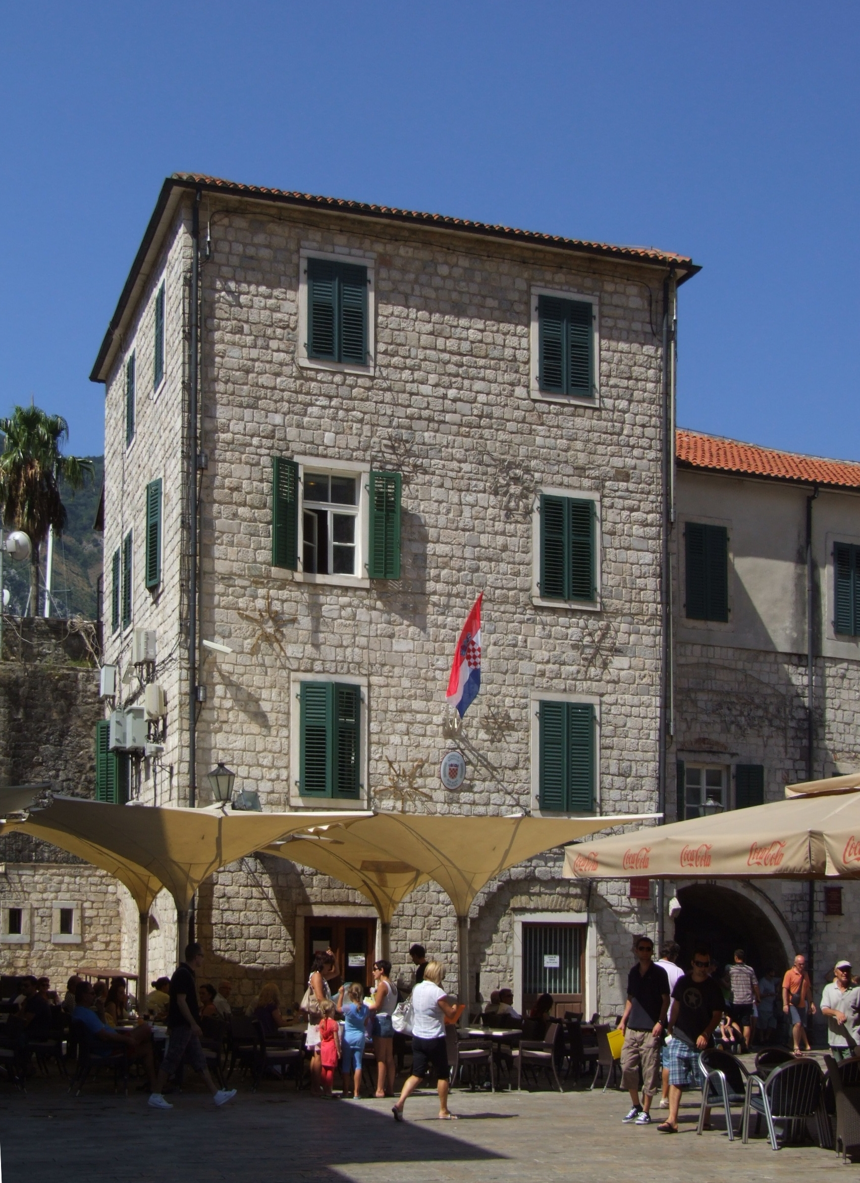 General Consulate of Croatia in Cotor